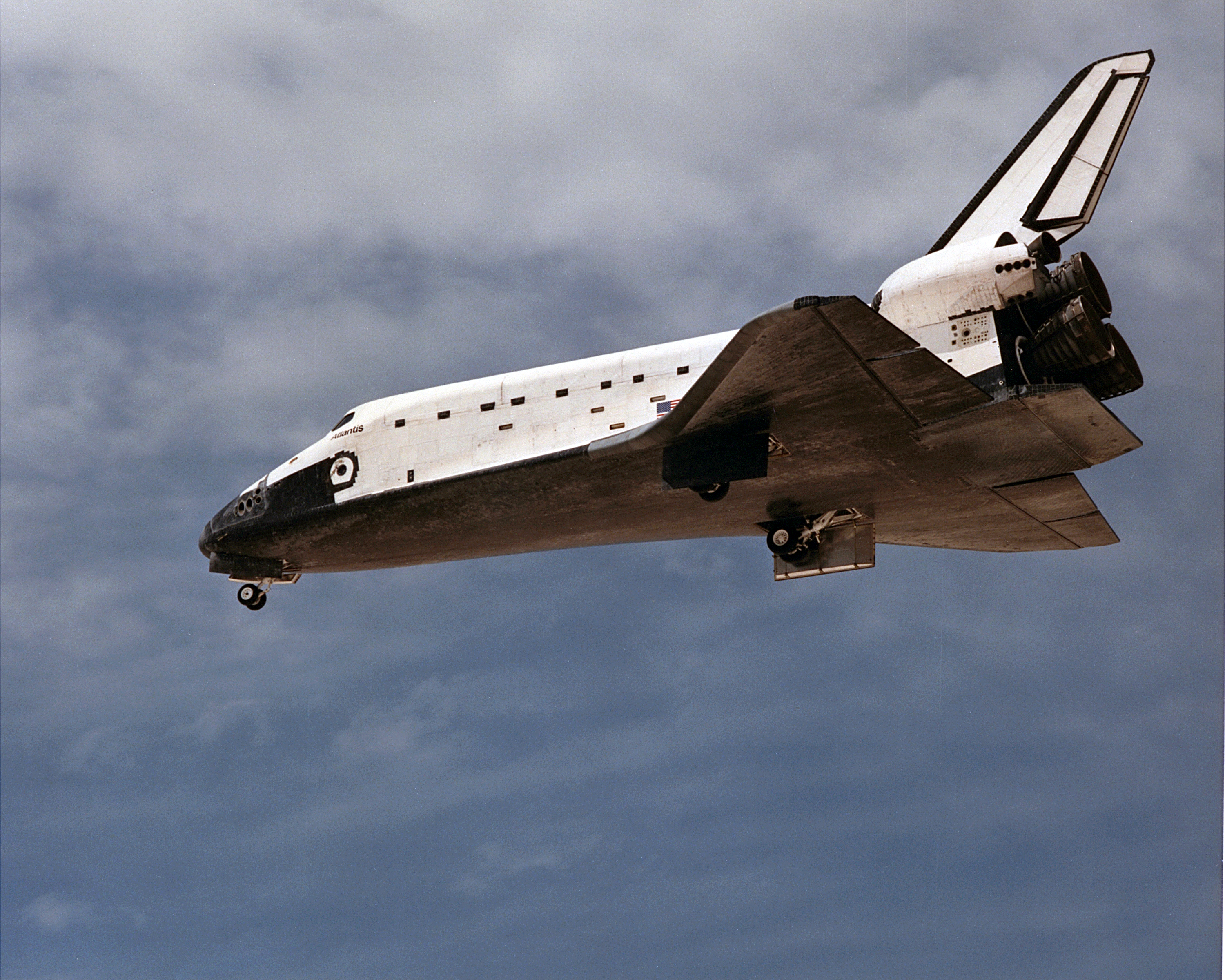 STS-30 Landing The Space Shuttle Atlantis returns to Earth after mission STS-30 landing at Edwards Air Force Base, CA. At 3:43:38 EDT. The orbiter Atlantis was launched form Kennedy Space Center May 4, 1989 at 2:46:59 p.m. EDT carrying into low Earth orbit the spacecraft Magellan. It was Atlantis' fourth shuttle mission. Approximately six hours after launch, Magellan was deployed from the Atlantis payload bay beginning its 15 month long journey to the planet Venus. Crew members of STS-30 were: Commander David M. Walker; Pilot Ronald J. Grabe; and Mission Specialists Mark C. Lee, Norman E. Thagard, and Mary L. Cleave. Reference Numbers Center: KSC Center Number: 89PC-0561 GRIN DataBase Number: GPN-2000-000667